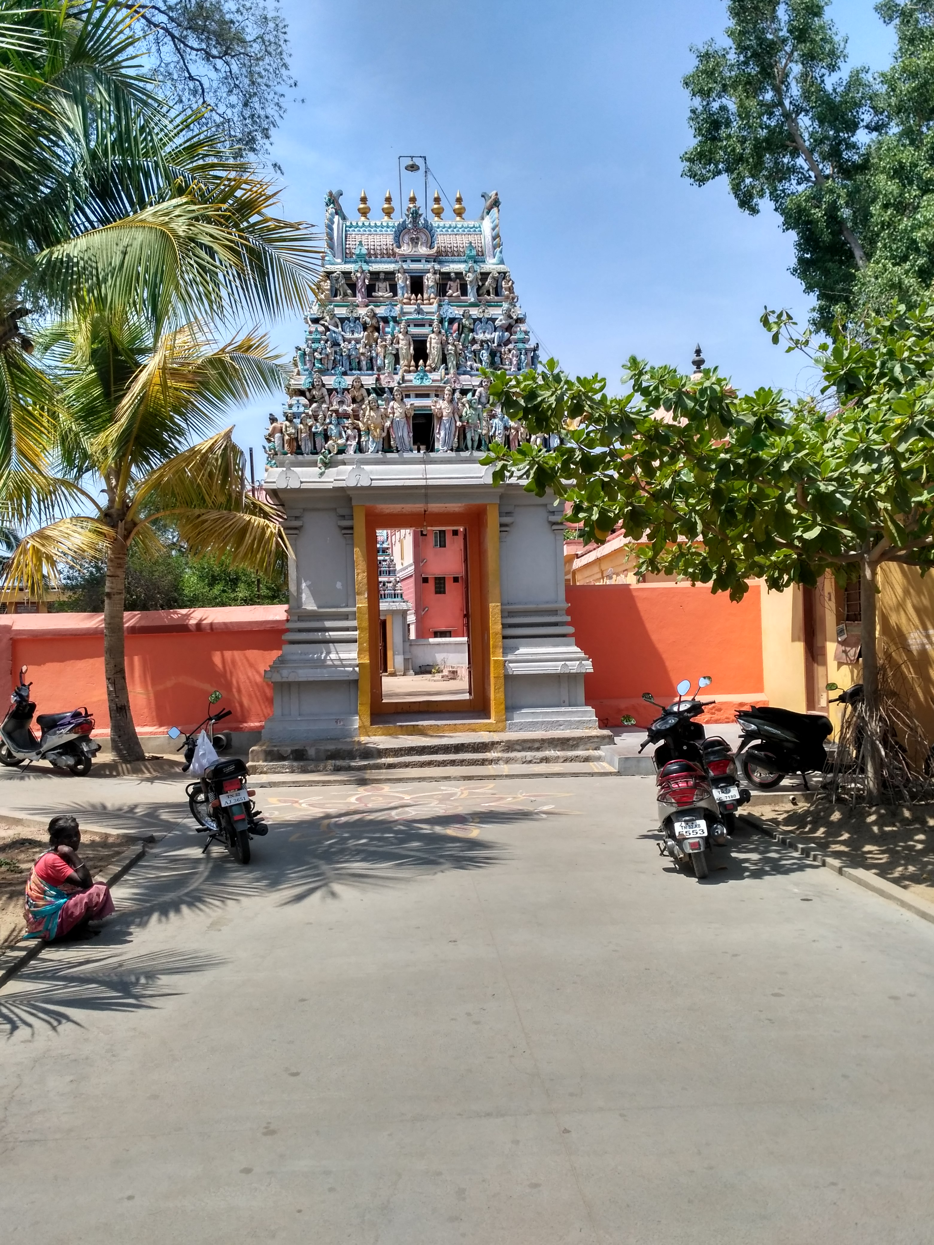 Sri sri Ragothamar birunthavanam